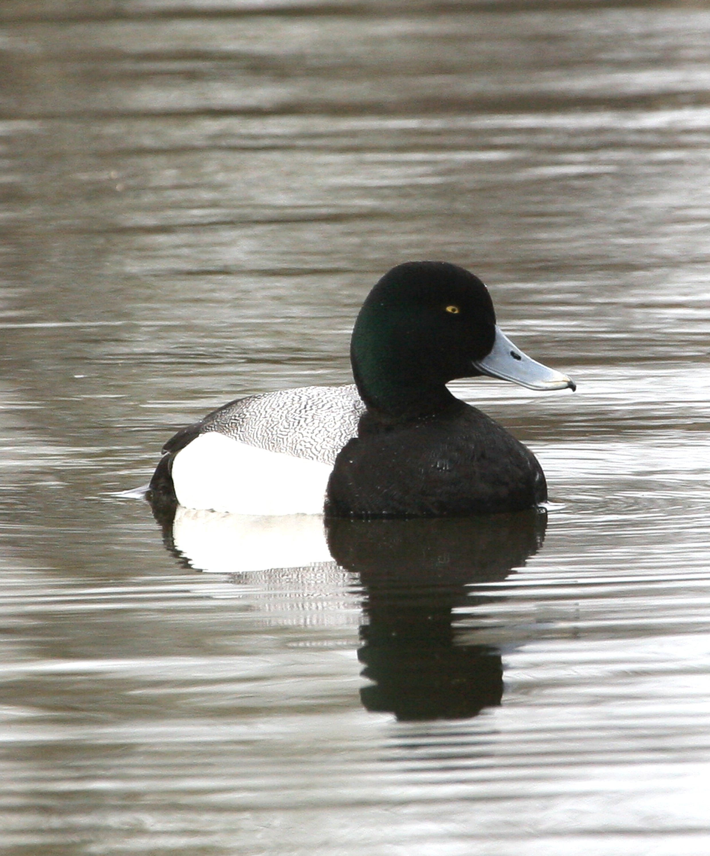 Greater Scaup Drake (Aythya marila) This image was taken at Westchester Lagoon, Anchorage, AK, USA